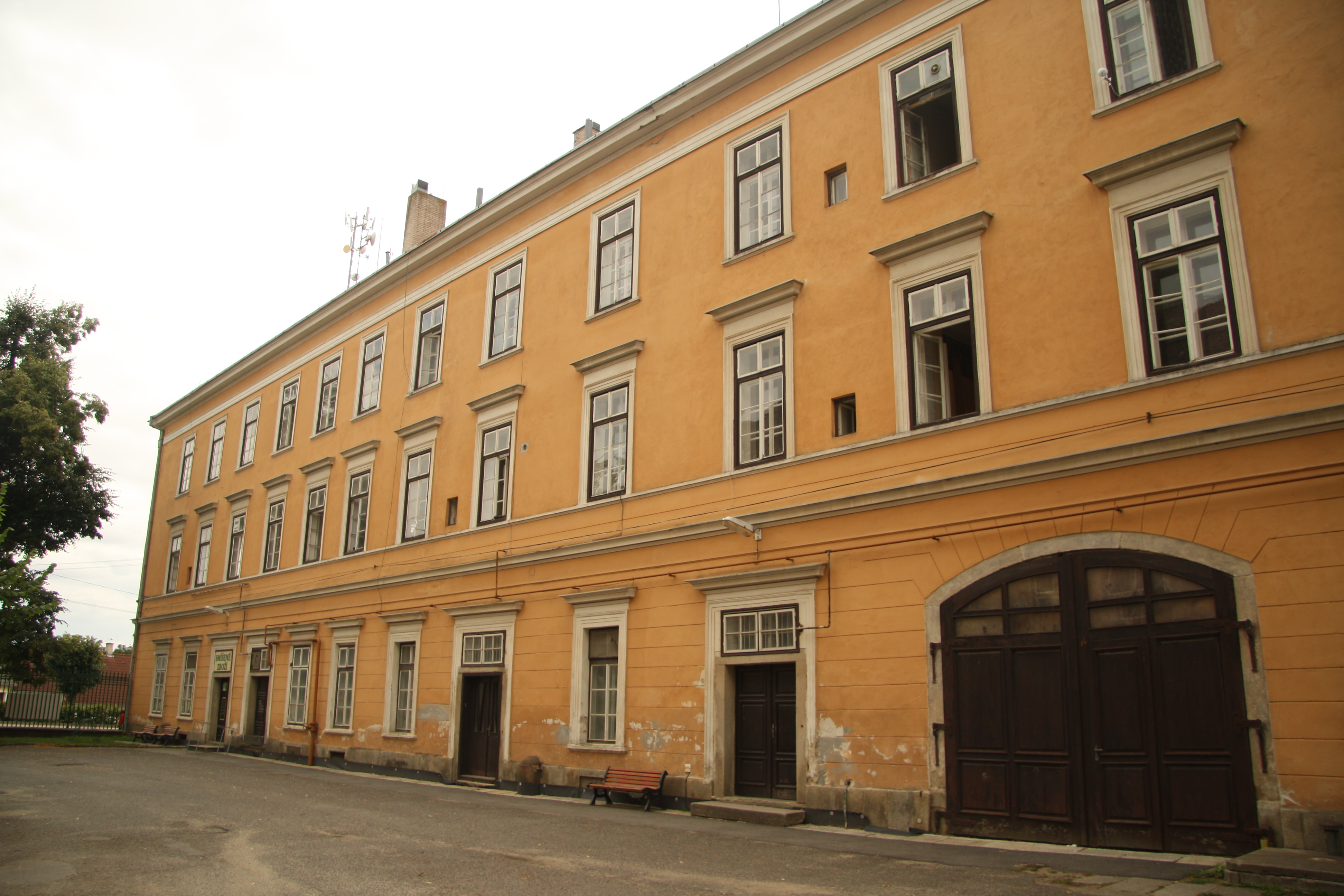 Left wing of Lesonice Castle in Lesonice, Třebíč District.